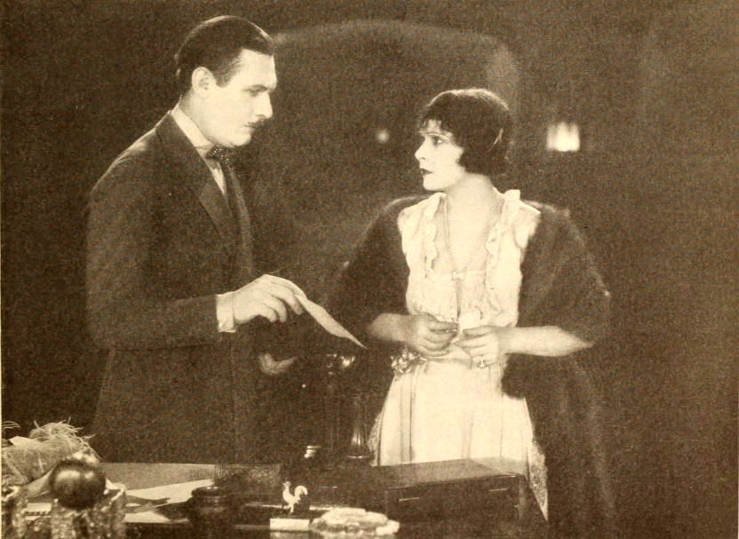 Still with Lew Cody and Norma Talmadge in the American film The Sign on the Door (1921), on page 39 of the August 1921 Photoplay magazine. In this scene, a photograph is being shown to blackmail.